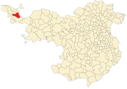 Fontanals de Cerdanya